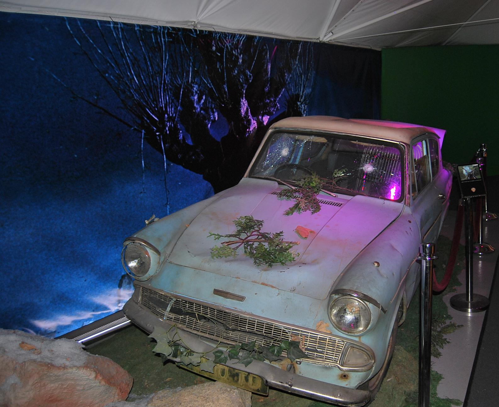 The original "flying" car as it's used in the movie Harry Potter and the Chamber of Secrets (film). Picture taken at the Warner Bros. Studios.